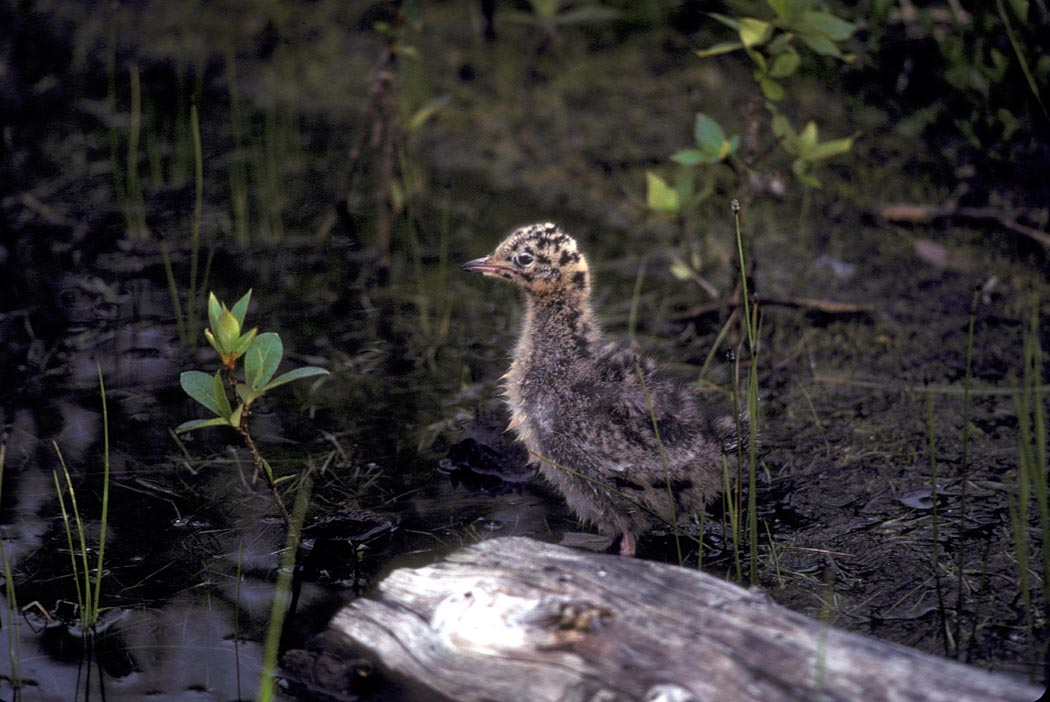 Bonaparte's Gull Chick Chroicocephalus philadelphia, Alaska